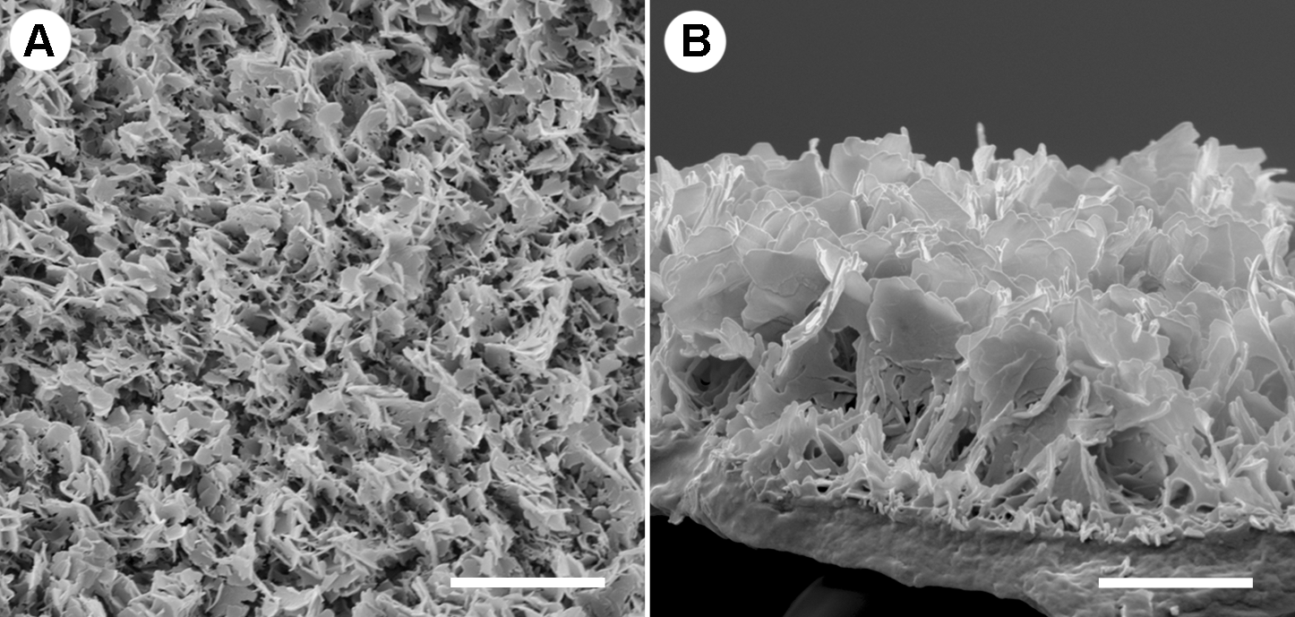 Original caption: "(A–B) Microstructure of the crystalline wax layer on the inner pitcher wall. (A) Top view, showing a dense network of thin, upright wax platelets (scale bar: 5 µm). The freeze-fracture side view (B) reveals the internal organisation of the surface (scale bar: 2 µm). (C–D) Microstructure of the lower lid surface. (C) Top view: the wax crystals form solid, pillar-like structures, unevenly distributed across the surface and surrounded by smooth cuticle (scale bar: 5 µm). (D) Side view of the wax pillars (scale bar: 2 µm)."